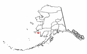 Adapted from Wikipedia's AK borough maps by Seth Ilys.